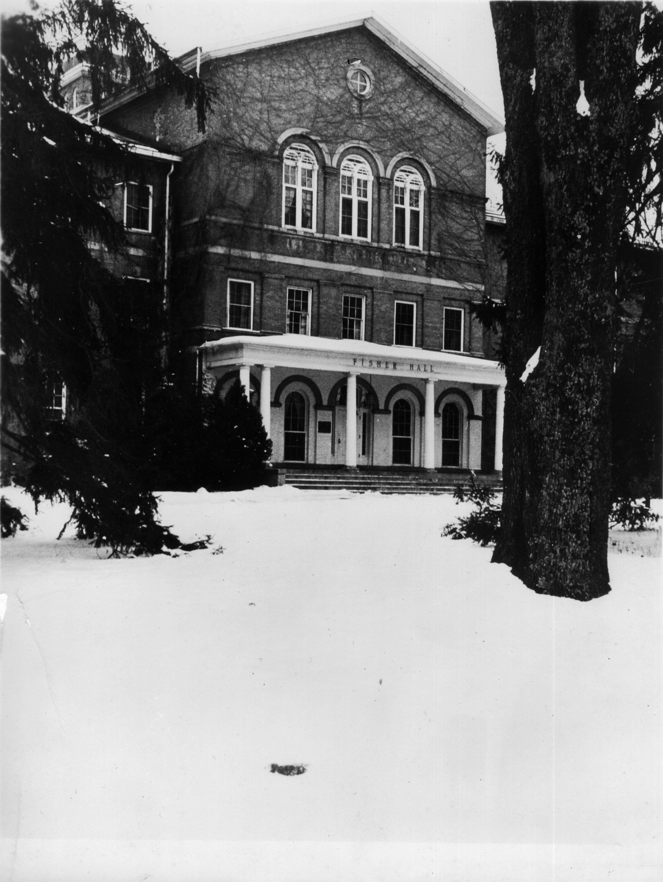 Fisher Hall in the winter of 1970